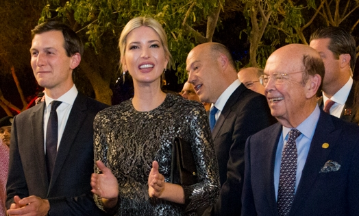 Senior White House Adviser Jared Kushner, and his wife, Assistant to the President Ivanka Trump, U.S. Commerce Secretary Wilbur Ross, U.S. Secretary of State Rex Tillerson, and White House Chief of Staff Reince Priebus are seen as they arrive with President Donald Trump and First Lady Melania Trump to the Murabba Palace as honored guests of King Salman bin Abdulaziz Al Saud of Saudi Arabia, Saturday evening, May 20, 2017, in Riyadh, Saudi Arabia. (Official White House Photo by Shealah Craighead)